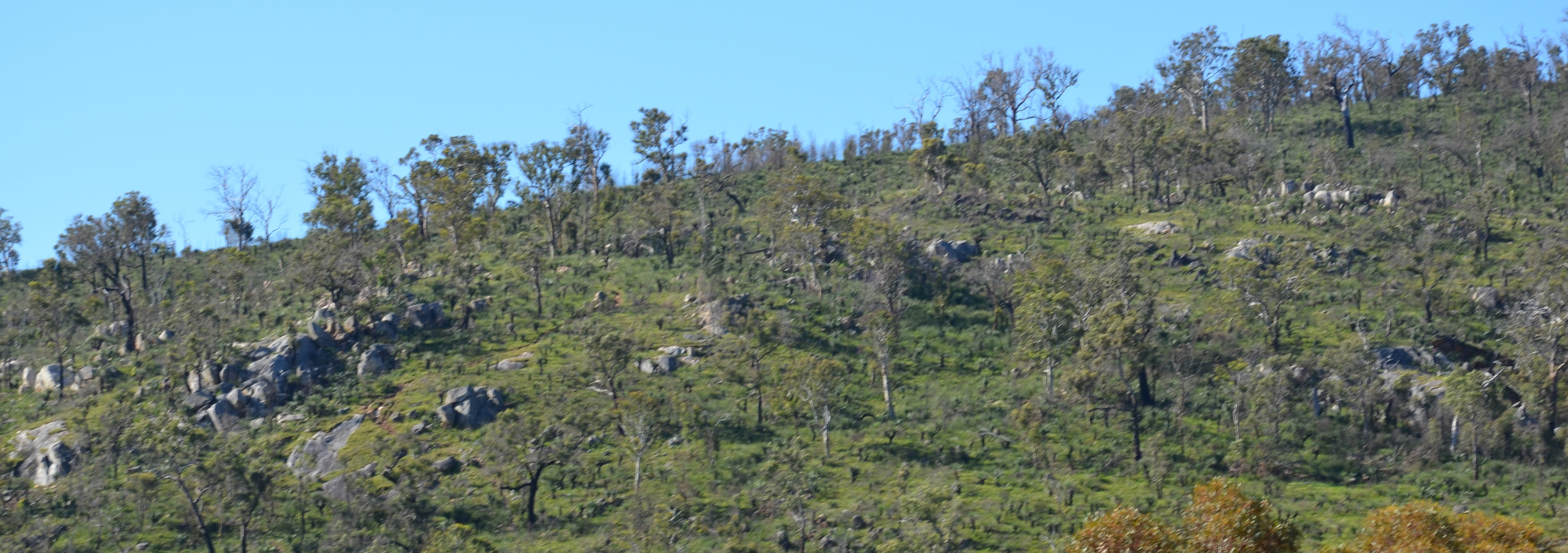 Greenmount Hill, Western Australia